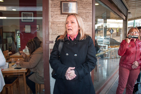 Susana, la esposa de Isidoro, en la colocación de placa en su memoria en Justa Lima de Atucha.